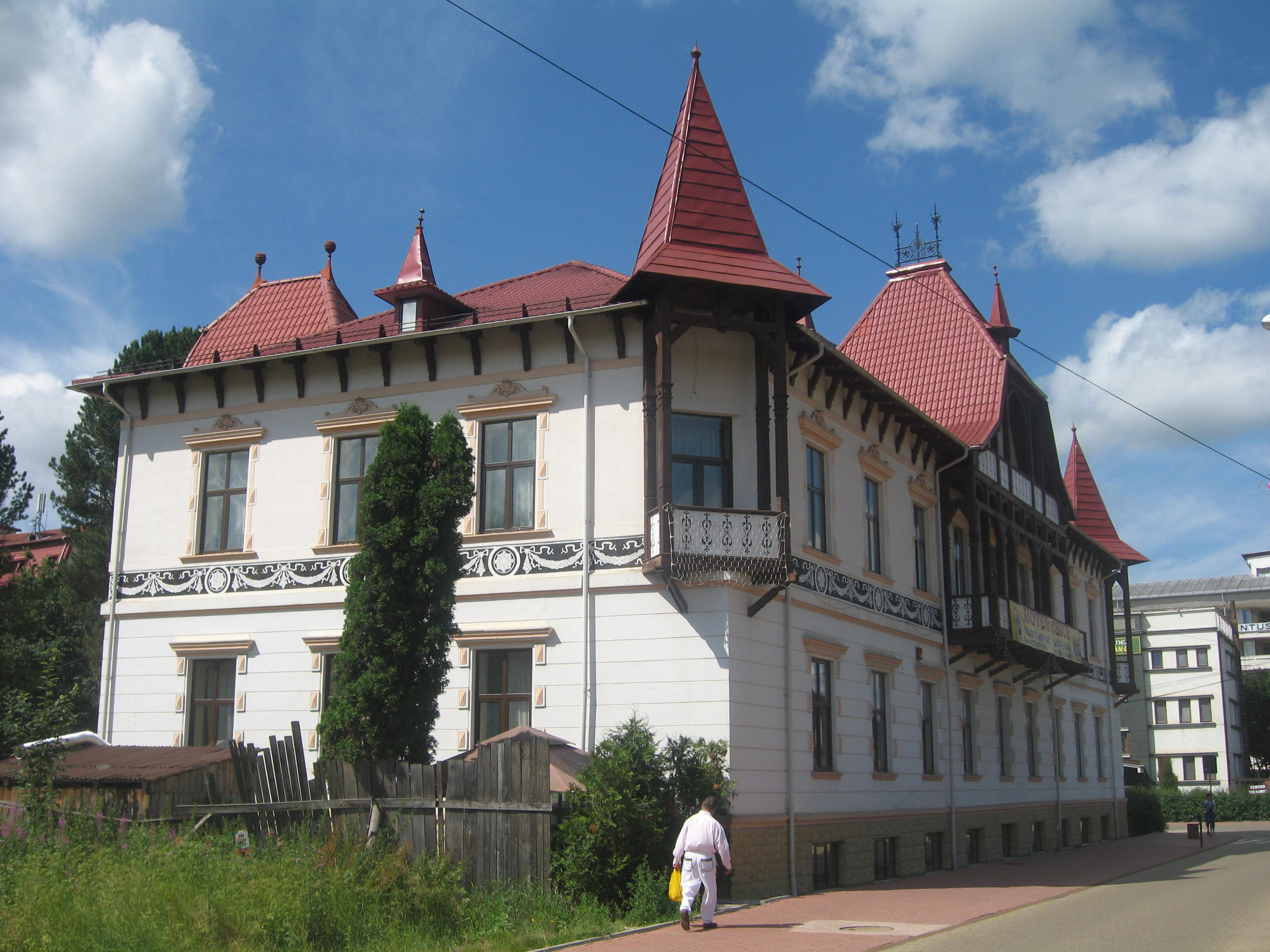 Vatra Dornei, Romania - Carol Hotel